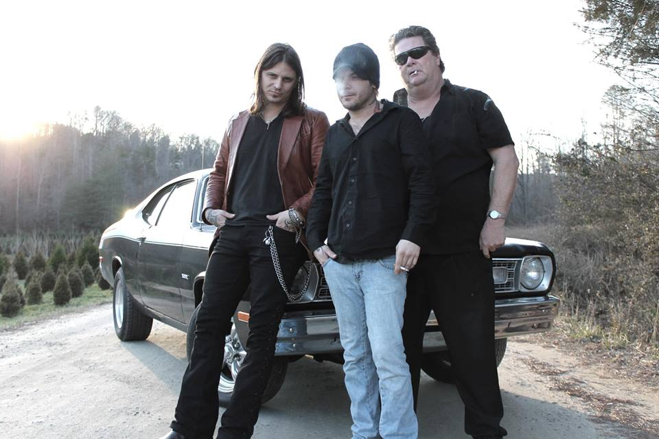 Rory Kelly's Triple Threat